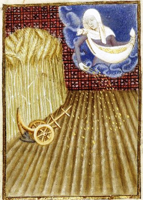 Ceres sowing fields